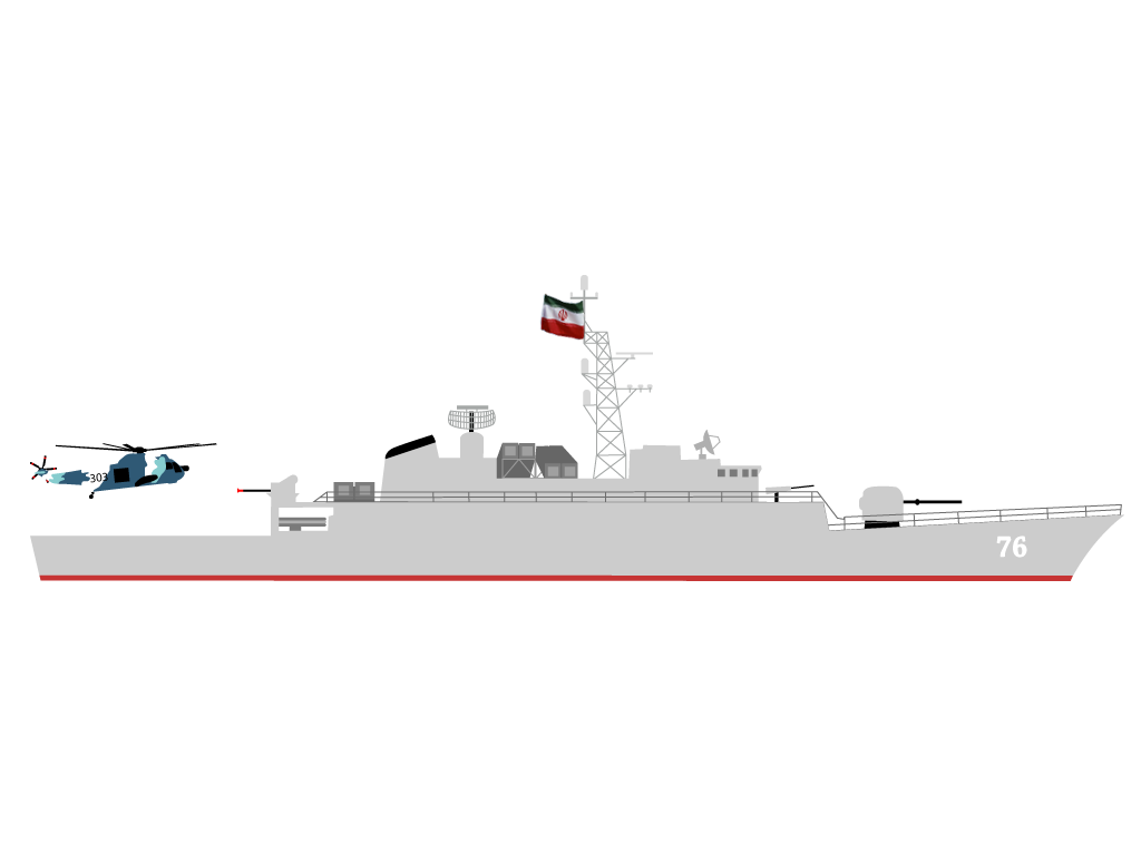 Jamaran Class destroyer on Adobe Illustrator (IRINavy)